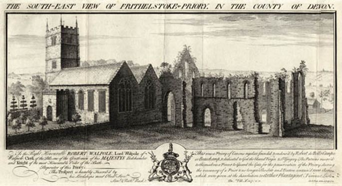 The South-East View of Frithelstoke-Priory in the County of Devon, 1734 engraving byb Samuel & Nathaniel Buck. Inscribed below: "To the Right Honourable ROBERT WALPOLE, Lord Walpole of Walpole, Clerk of the Rolls, one of the Gentlemen of his MAJESTYS Bedchamber, and Knight of the most honourable Order of the Bath, Proprietor of this Priory, This Prospect is humbly Inscrib'd by his Lordships most Obedt. Servts. Saml. & Nathl. Buck." In the centre is the coat of arms of Walpole, and on the left is inscribed: "This was a Priory of Canons regular, founded & endow'd by Robert de Bello Campo or Beauchamp, & dedicated to God the blessed Virgin & St. Gregory. The Patrons reserv'd to themselves a Power to Guard the Gate for the preservation of the priory, during the vacancy of a Prior & no longer. The Scite and Barton contain'd 1000 Acres which were given at the dissolution to Arthur Plantaginet, Viscount Lisle".